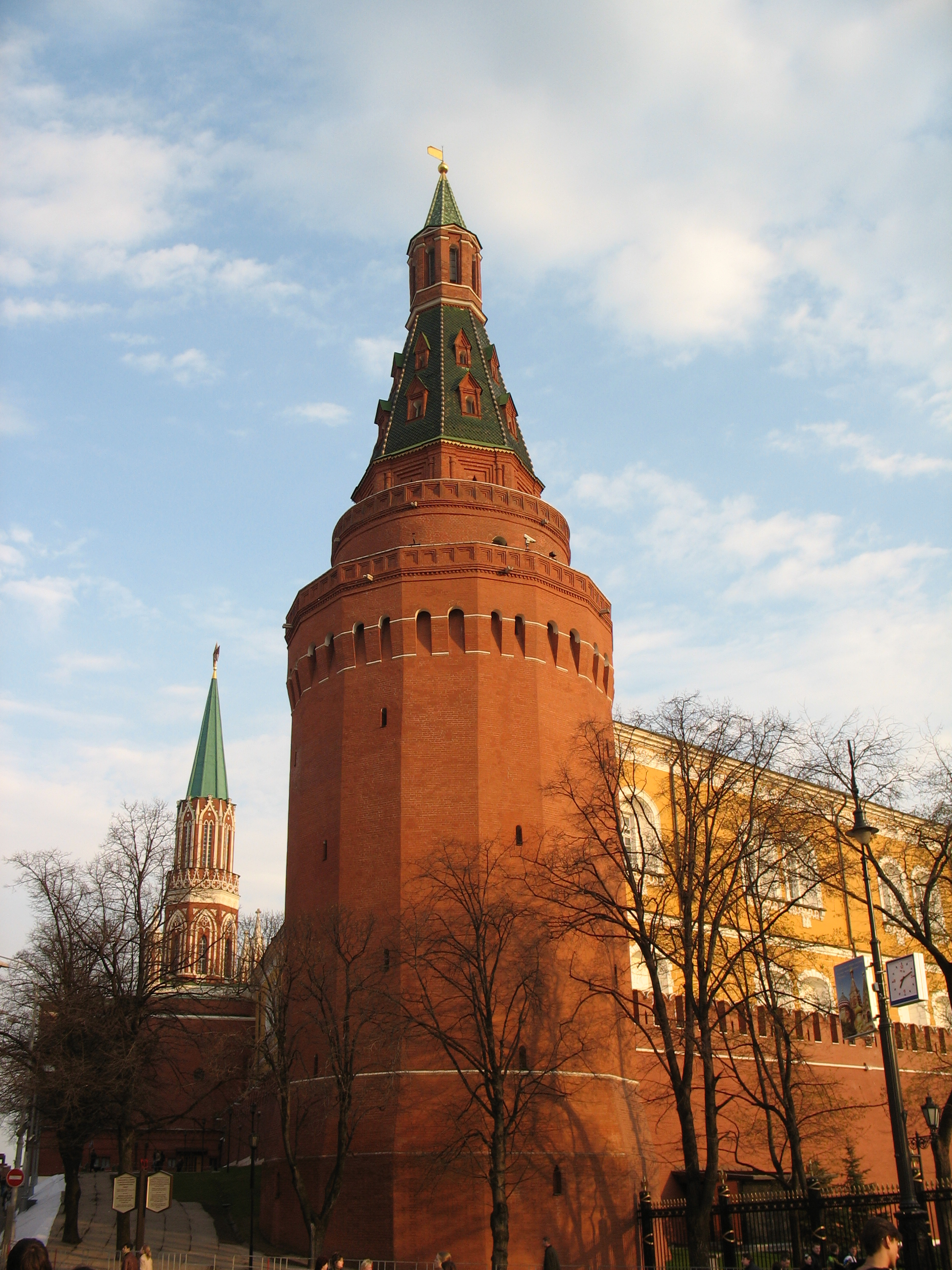 Uglovaya Arsenalnaya tower of Moscow Kremlin